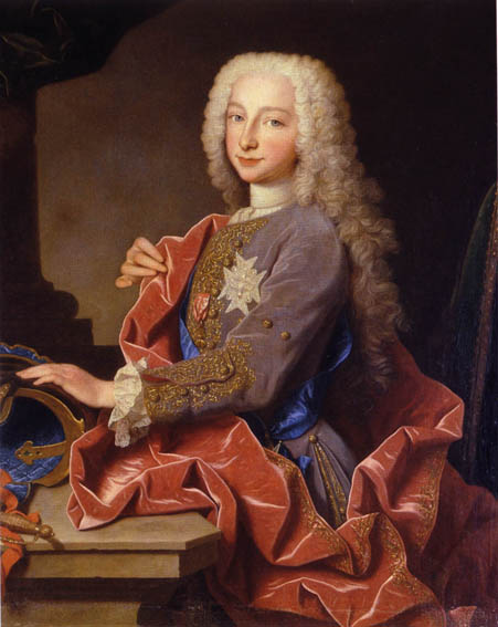 Charles de Bourbon (1716-1788), futur Carlos III